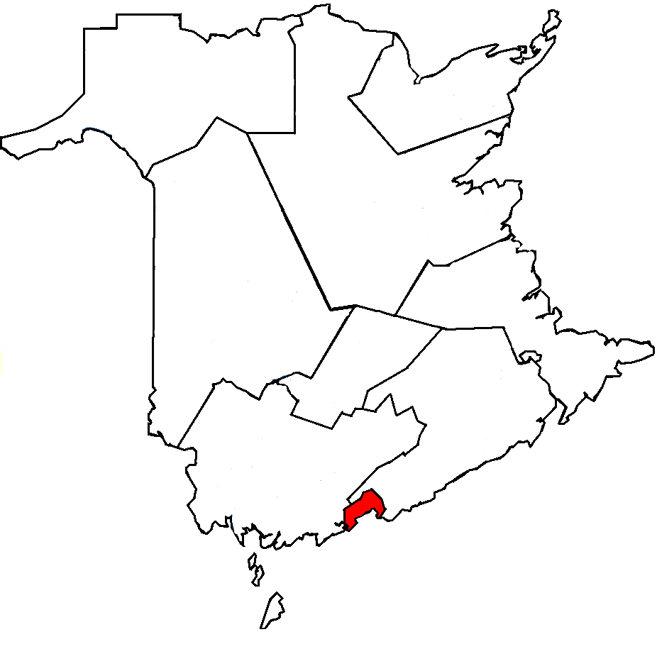 Map of the Saint John electoral district. Based on Earl Andrew's maps, created by SimonP.